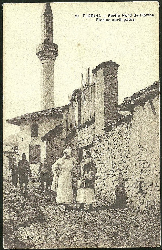 Lerin North Gate